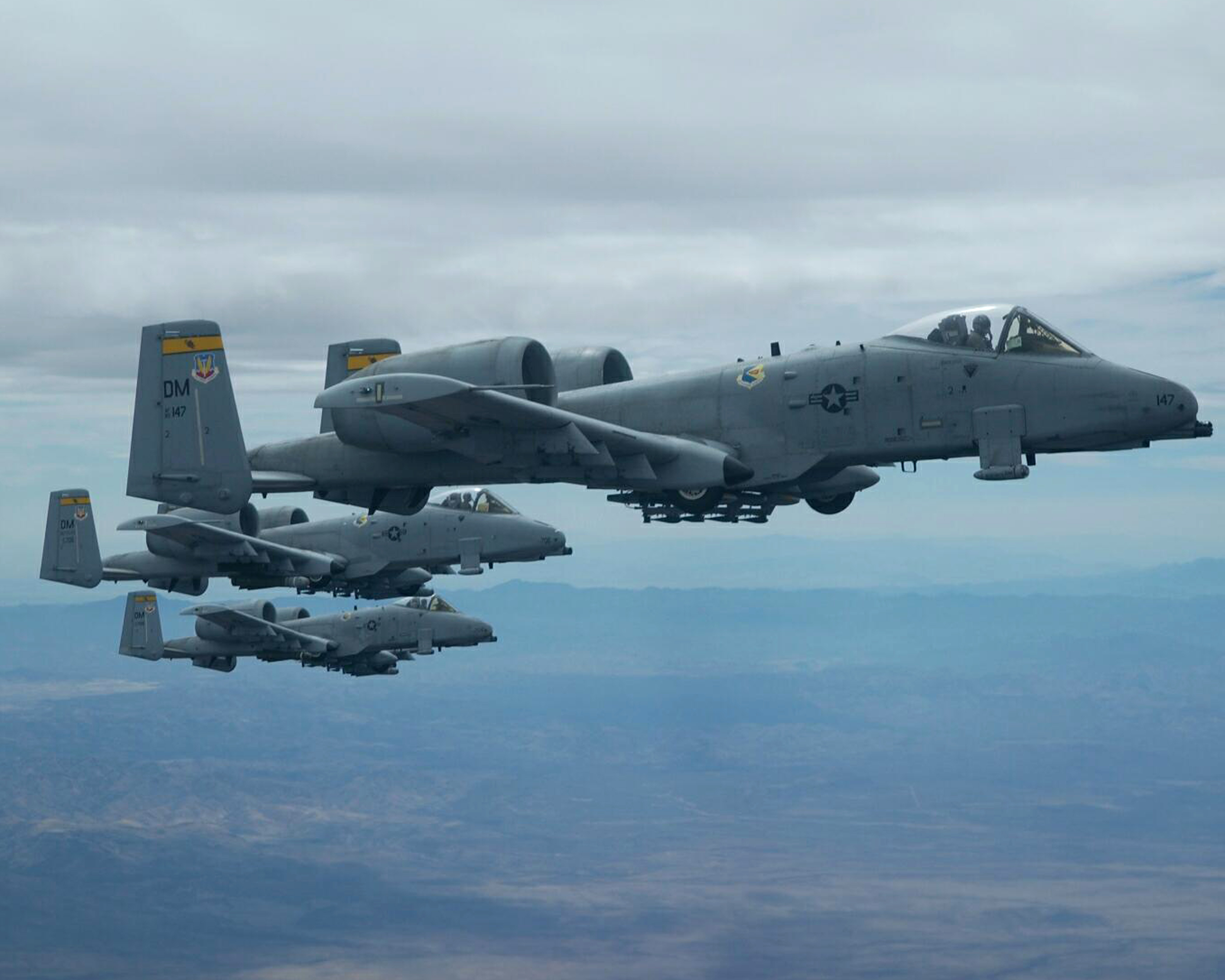 Three A-10 Thunderbolt II aircraft fly in formation over Tucson, Ariz., during an air refueling training mission April 14, 2006. The A-10 aircraft are assigned to the 358th Fighter Squadron at Davis-Monthan Air Force Base, Ariz.